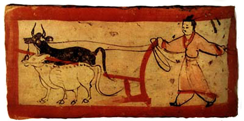 A painted tomb brick from the Western Jin Dynasty (265–316 CE)